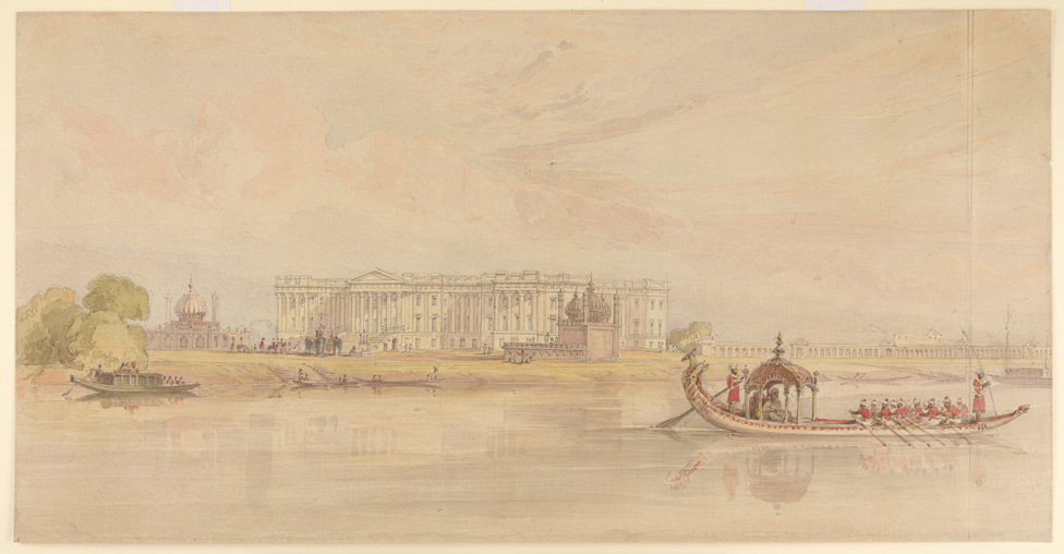 Watercolour painting of the Nizamat Kila in Murshidabad, West Bengal by William Prinsep (1794-1874), c. 1830-1840.The Nizamat Kila, also called the Hazarduari or the Palace of a Thousand Doors, is a palace that was built in the classical style for the Nawabs of Murshidabad by Colonel Duncan Macleod (1780-1856), Bengal Engineers. It was built between 1829 and 1837.